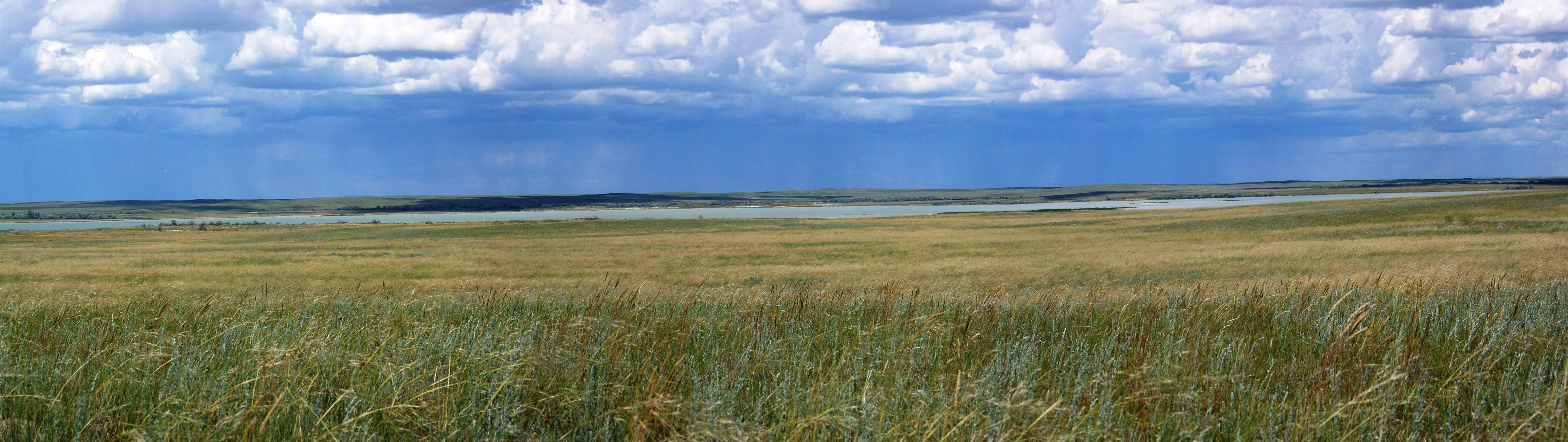 Native prairie and Lake Bowdoin in the background on Bowdoin NWR Credit: Carmen Luna/USFWS